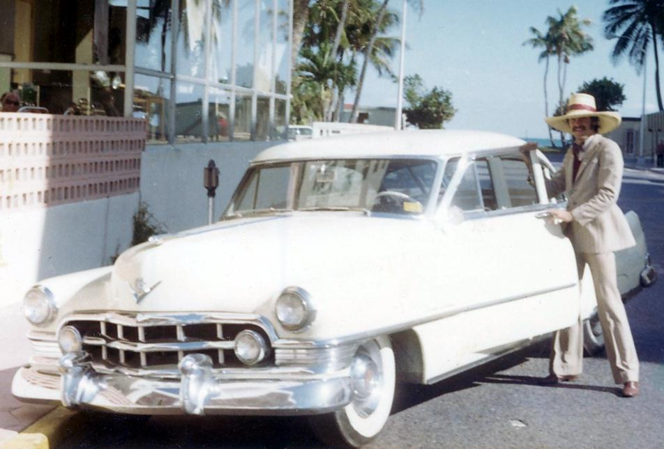 Lars Jacob & his 1950 Cadillac Euphemia, as released by image creator Lars Jacob ProdPlace: 20th Street & Collins Avenue, Miami Beach, Florida